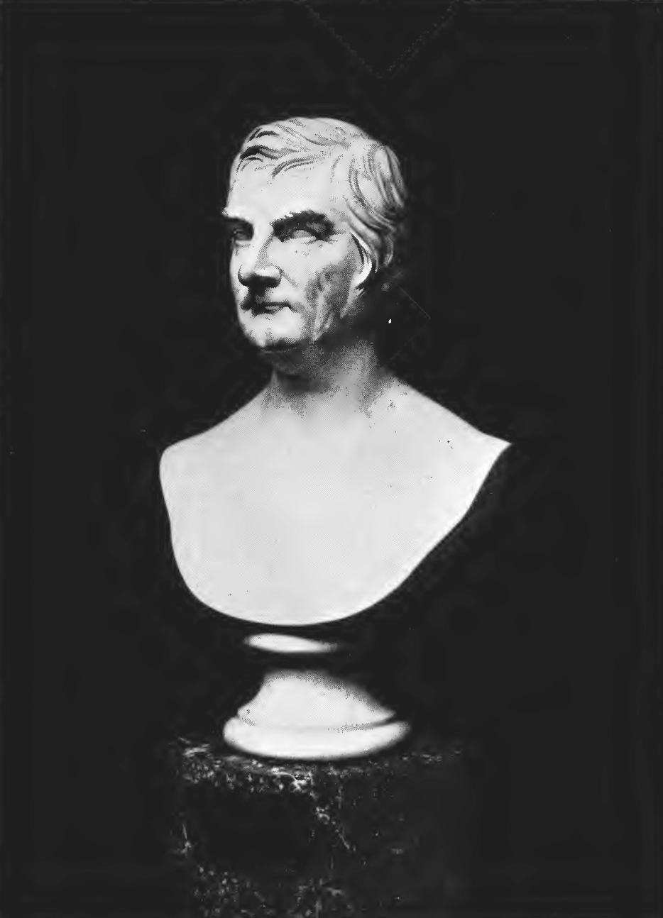 Photograph of portrait bust of merchant John Jacob Astor.